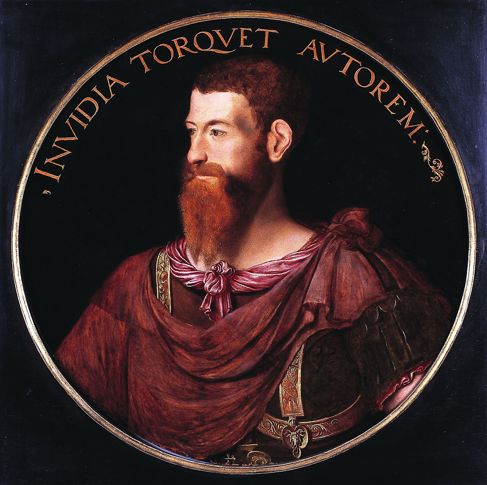 (or 19th earl) as a Roman Emperor.